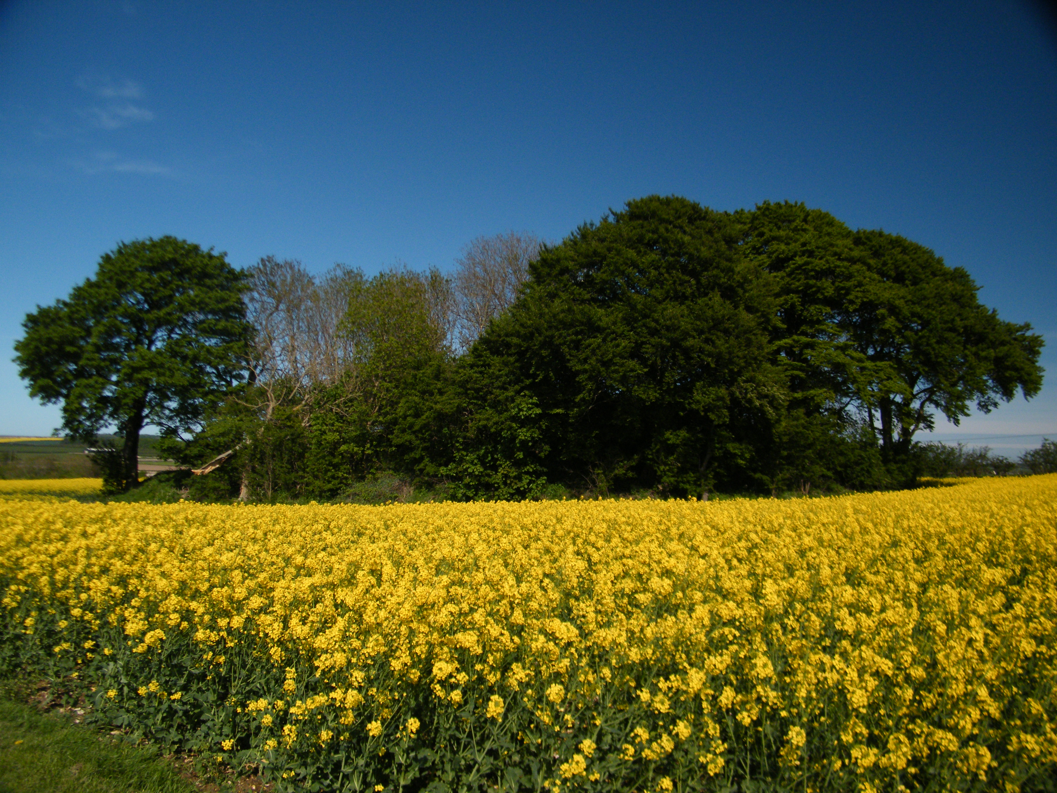 Willy Howe May 2013. Thwing, East Riding of Yorkshire, England.